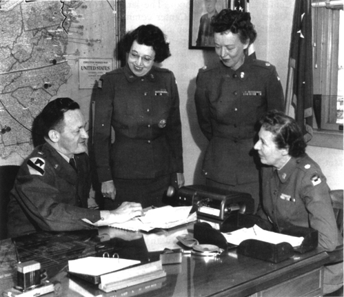 Charles D. Palmer meeting with U.S. Army WACs from [1]